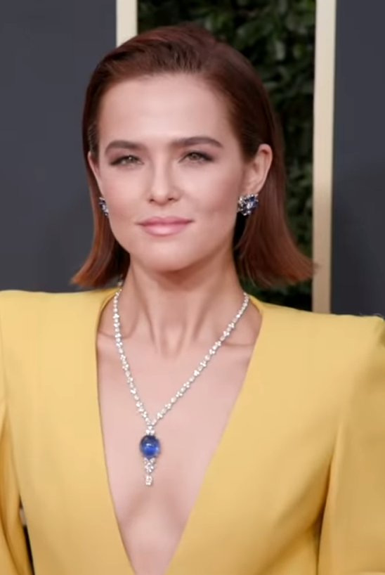 Zoey Deutch at Golden Globes Red Carpet 2020